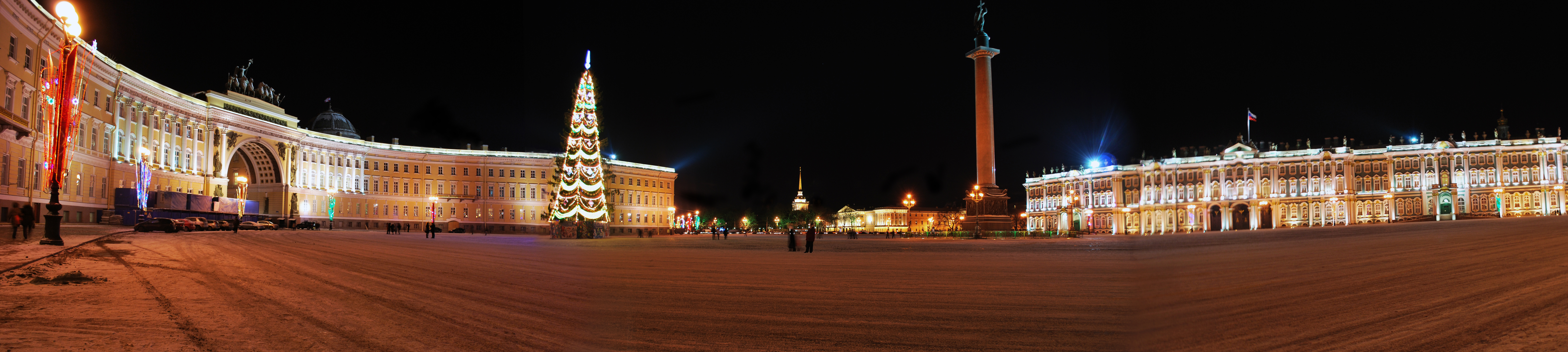 Palace square. Winter